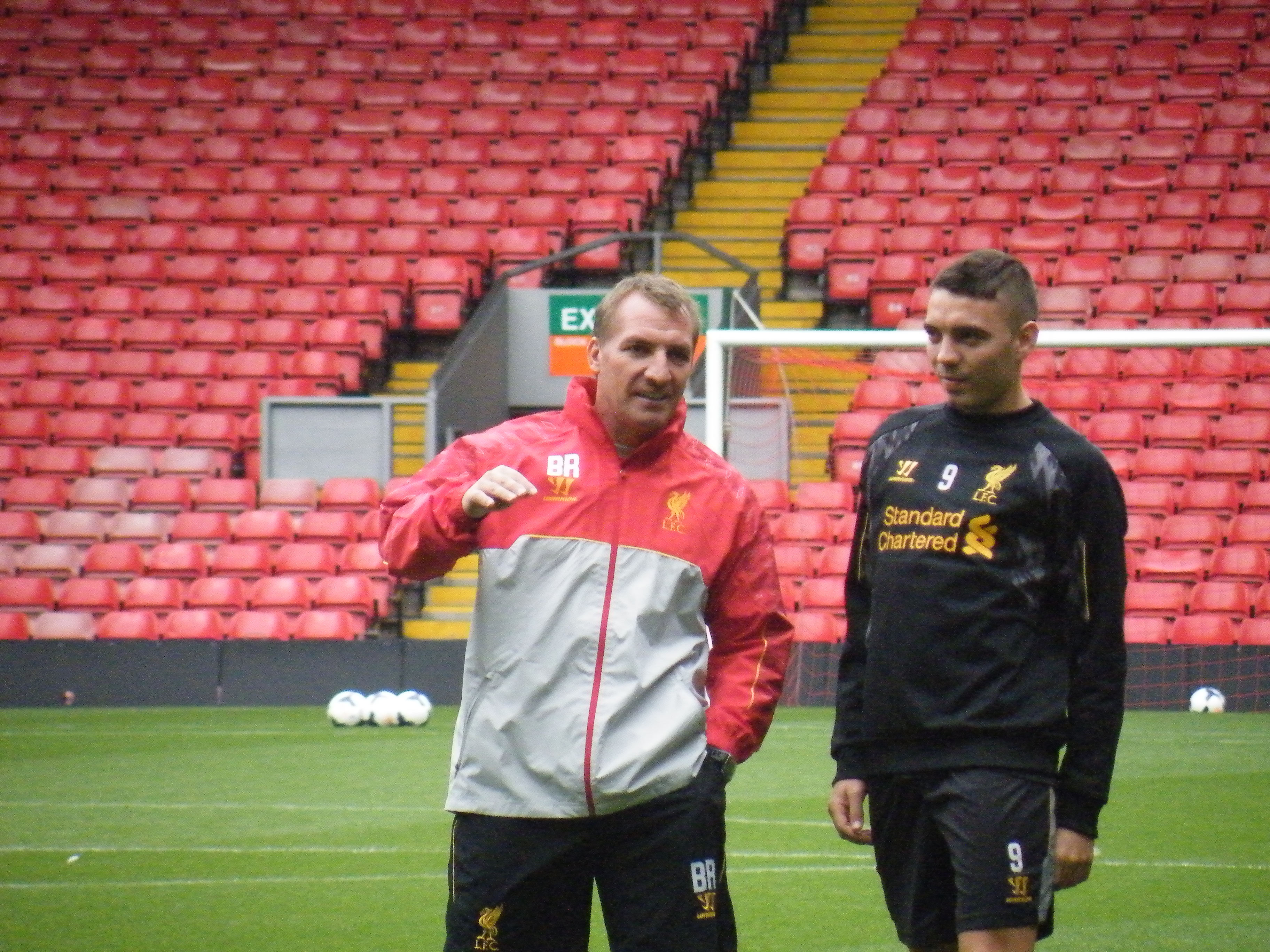 Brendan Rodgers and Iago Aspas during open training session at Anfield in August 2013.